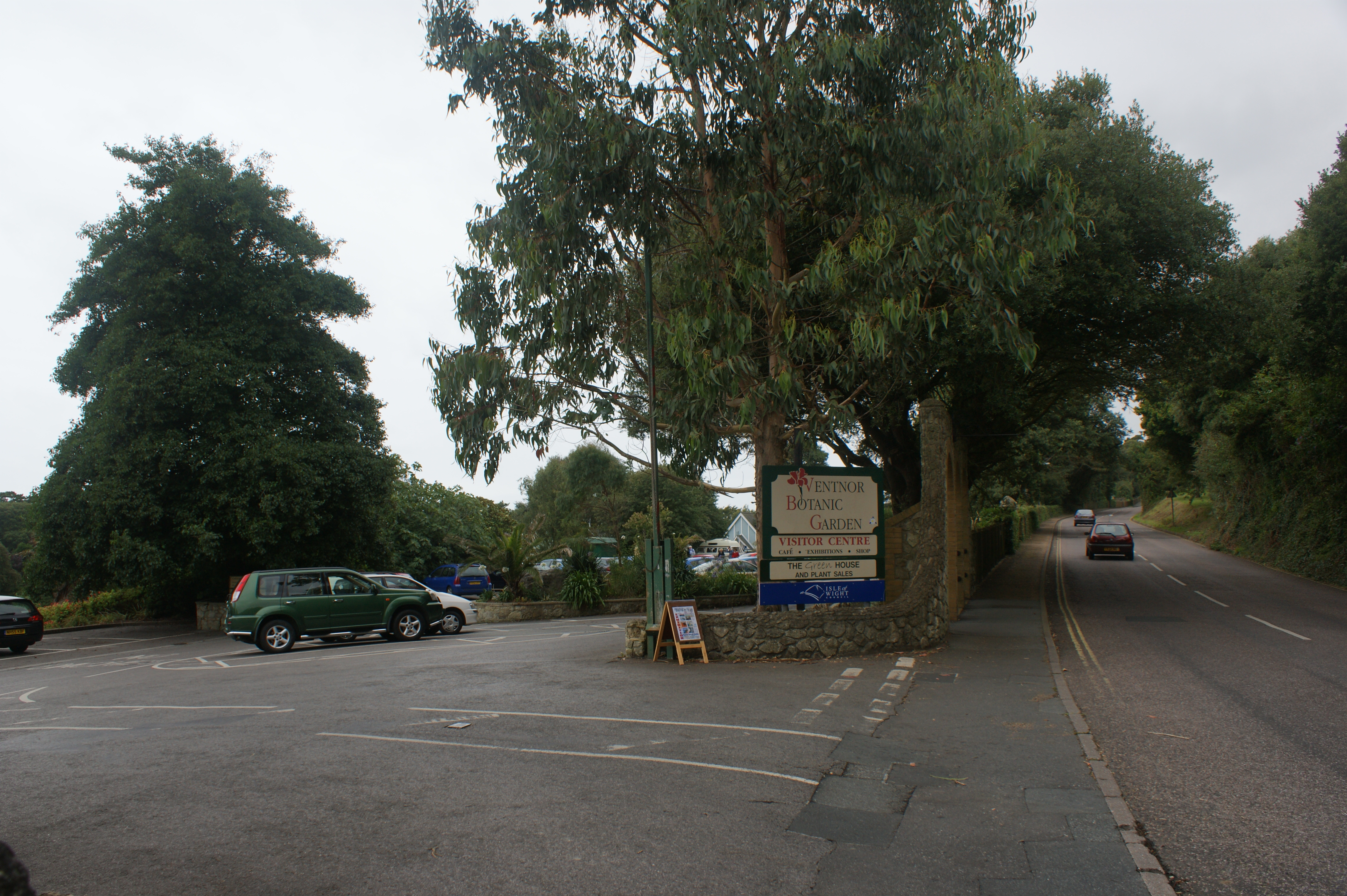 The main entrance to Ventnor Botanic Gardens.